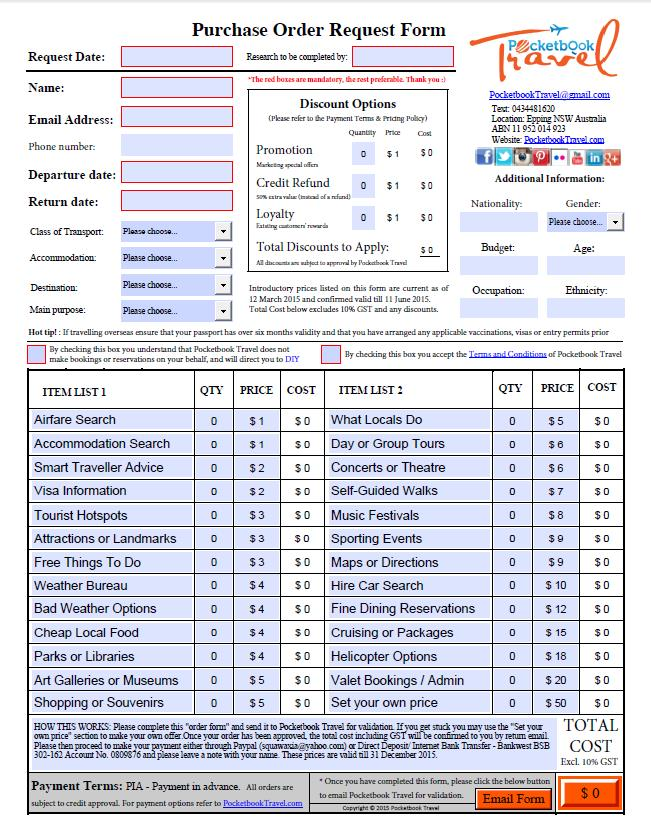 An example of the electronic order form